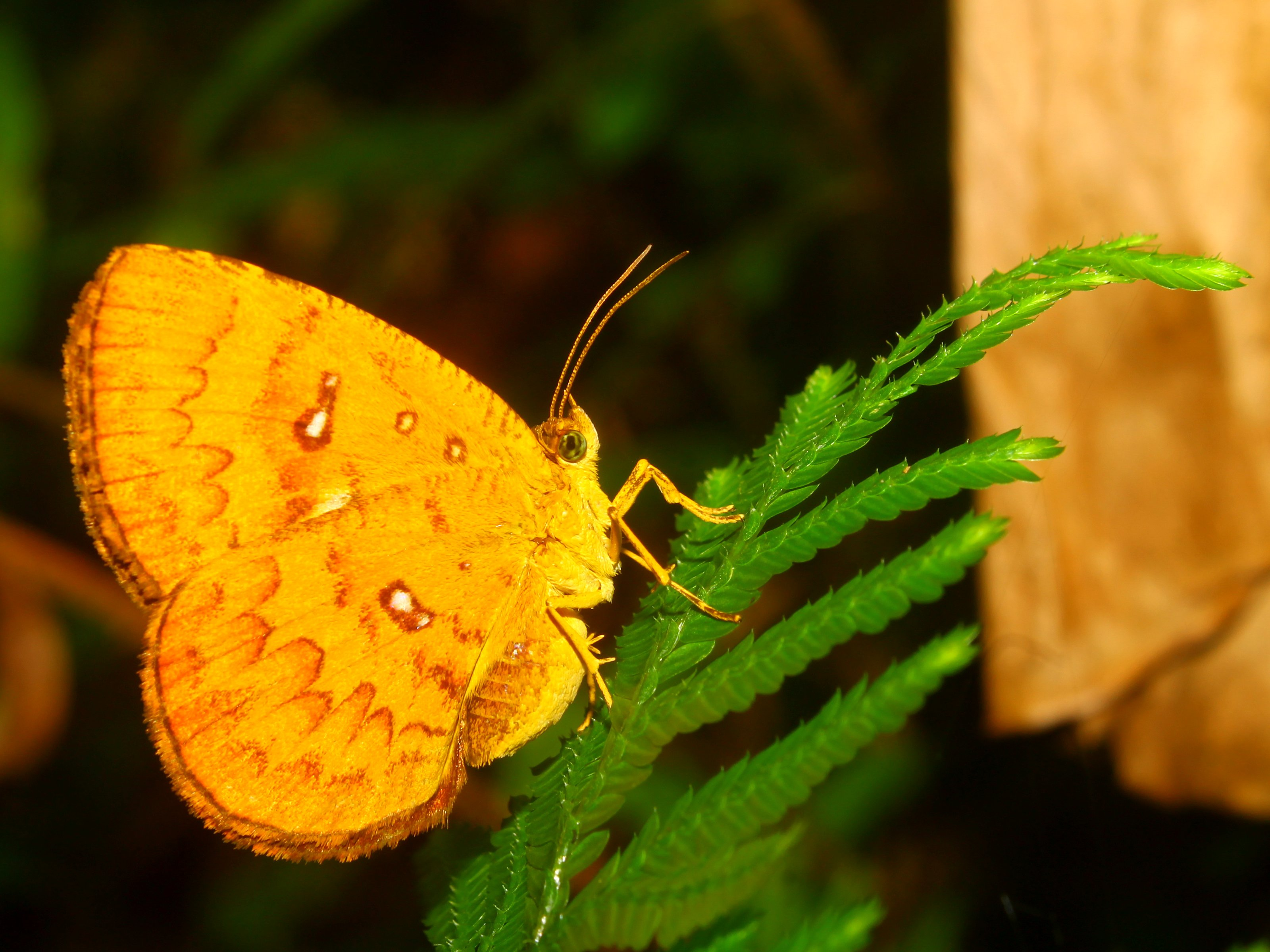 Callidulid Moth (Callidula evander) at Elusan, North Sulawesi